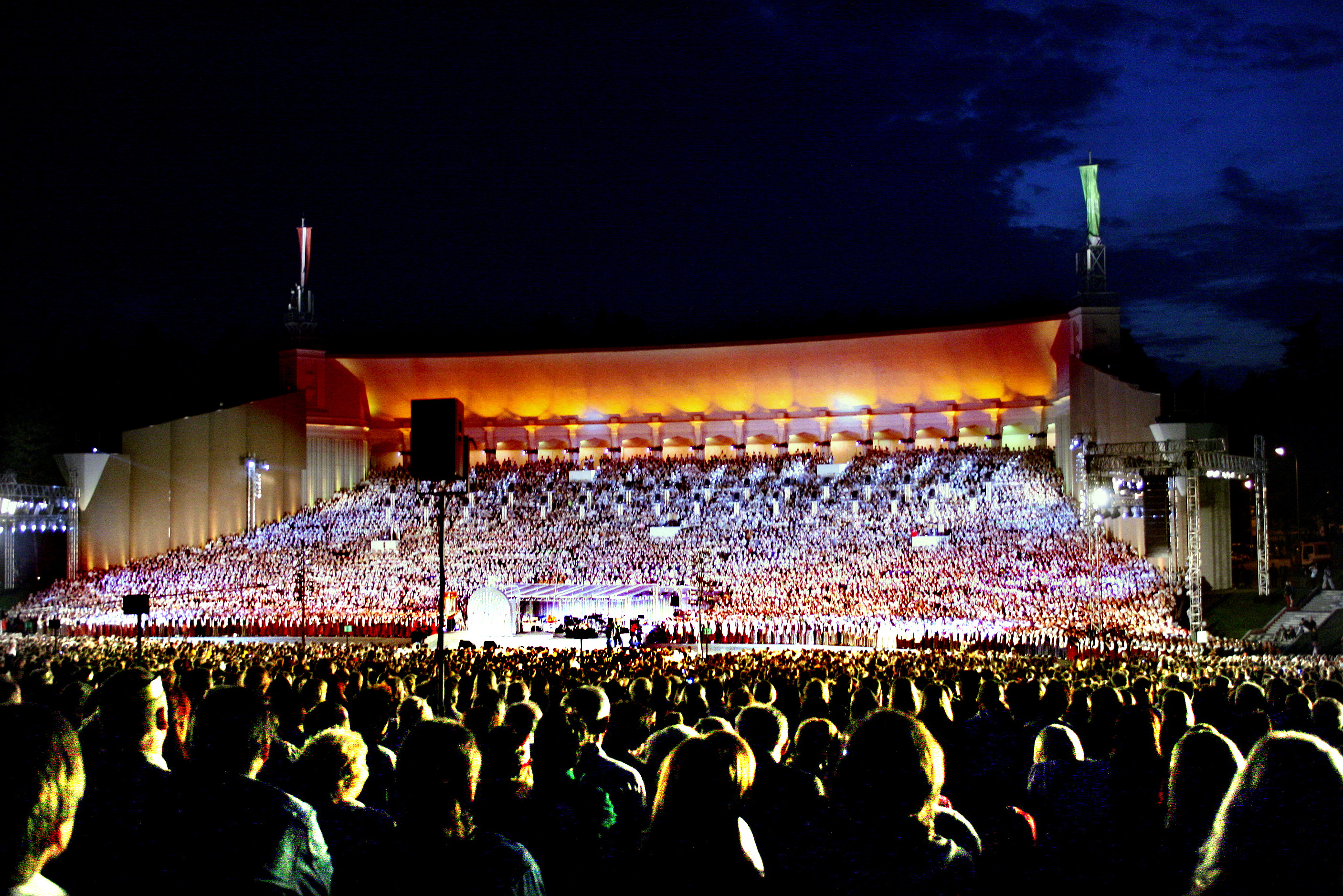 Latvian Song Festival 2008 -RigaLatviešu: Dziesmu svētki 2008. Rīga